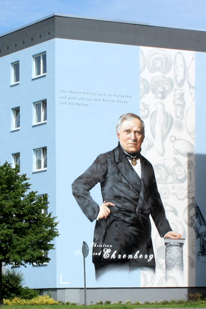 2013 in seiner Geburtsstadt Delitzsch gestaltete Fassade mit C. G. Ehrenberg